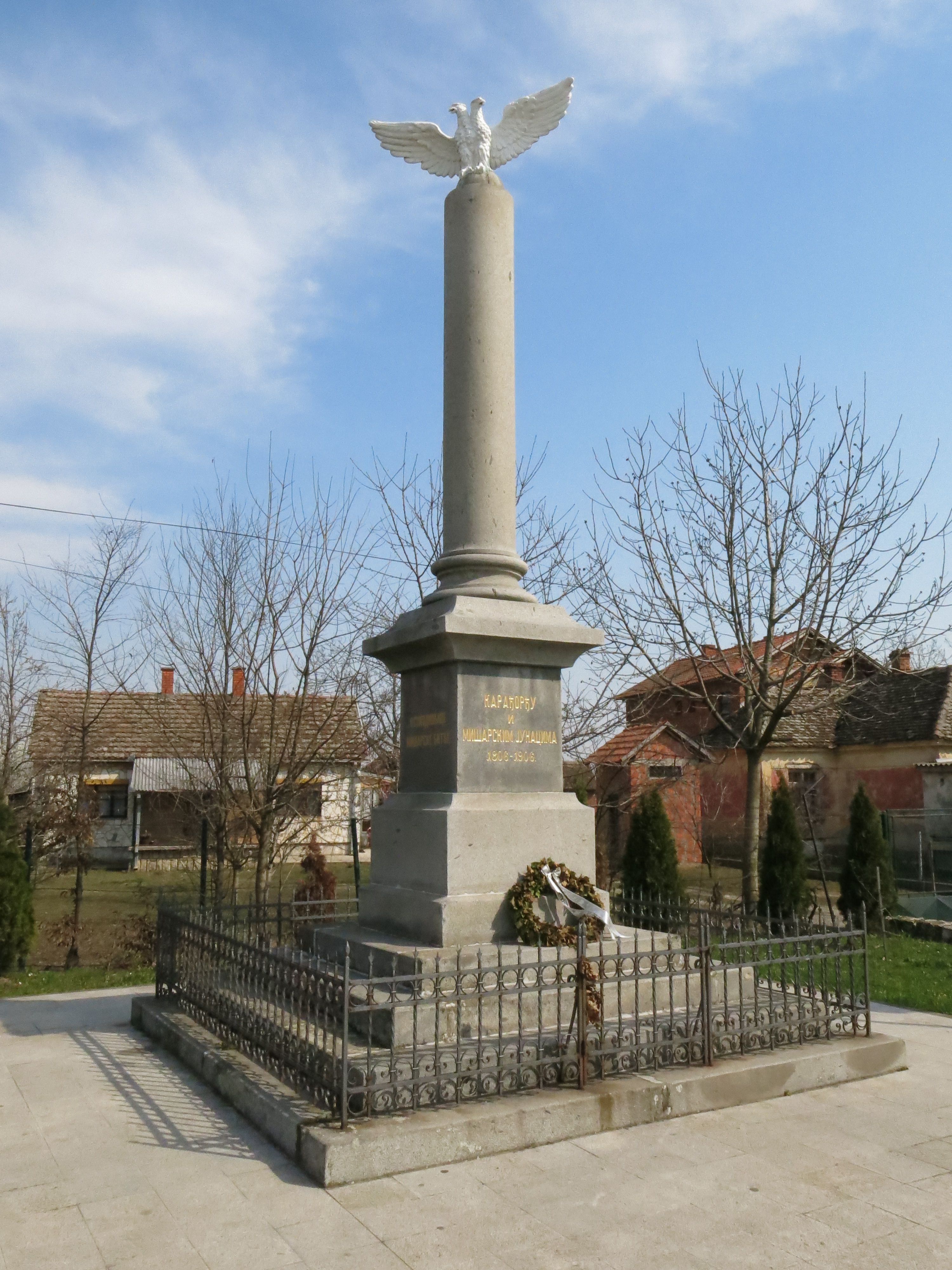 Mišar, Monument to Karađorđe and heroes of Mišar